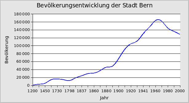 Population development of the city of Berne (Switzerland)